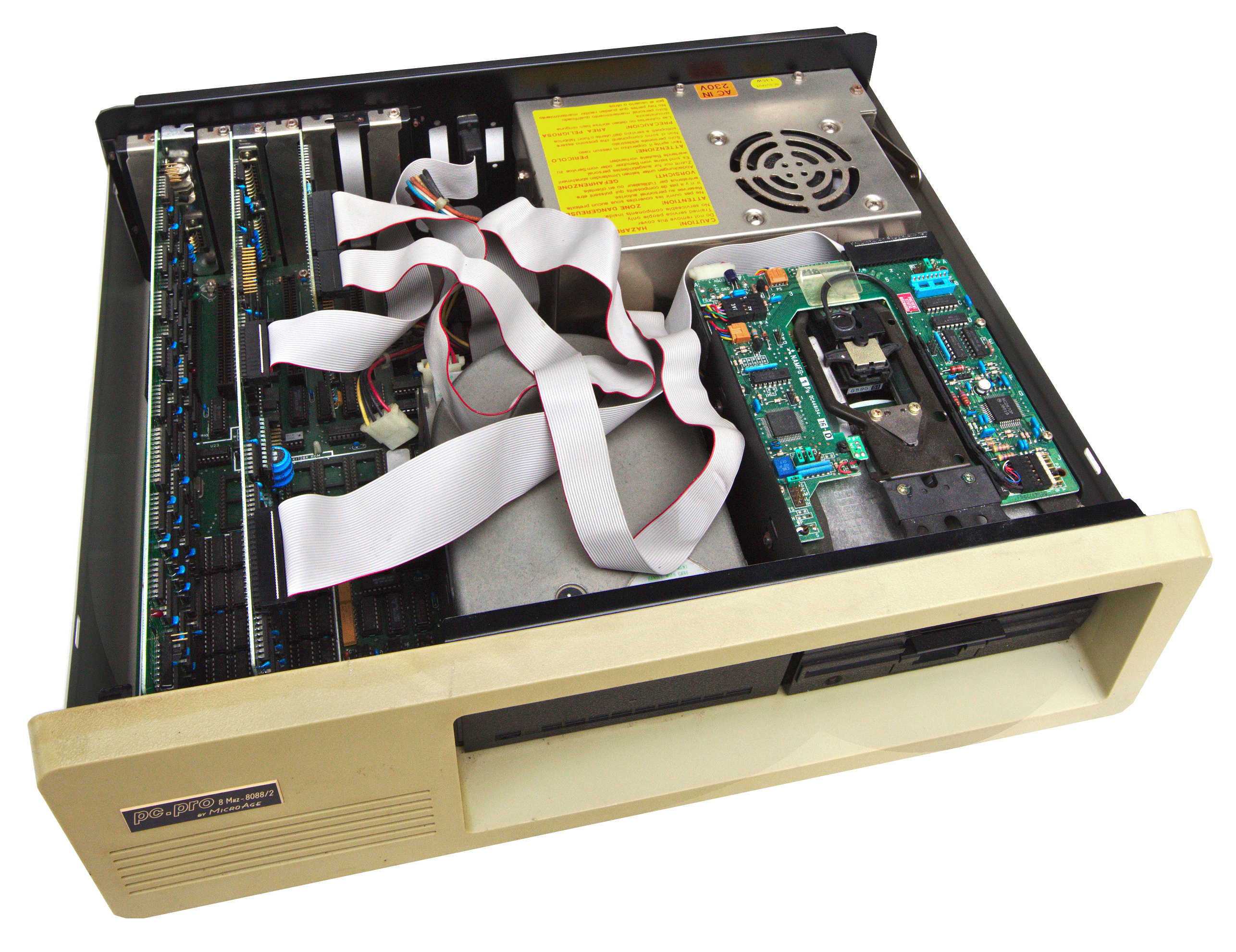 Inside an 8088/2 PC, showing expansion cards/daughterboards, hard disk, 5¼" floppy disk drive, power supply unit and internal connections.